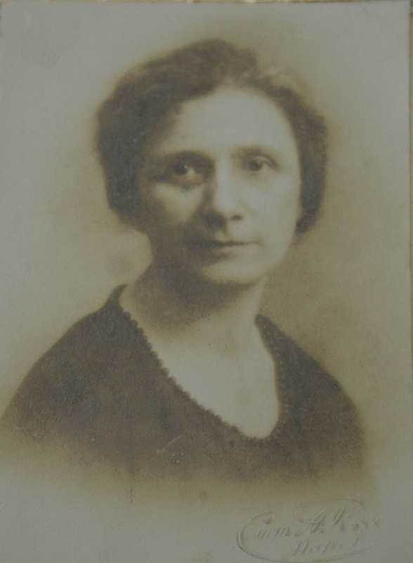 Photo from the Registration Status of Maria Bakunin as full professor of Federico II University, Naples (1895).